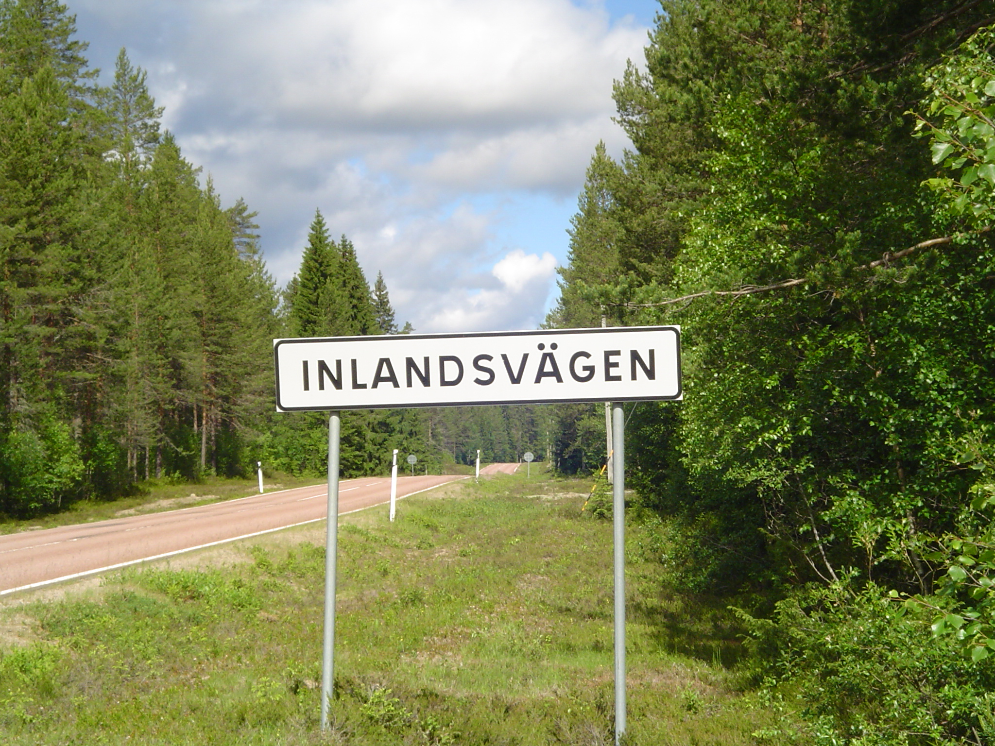 Sign of the Inlandsvägen in Sweden, European road 45